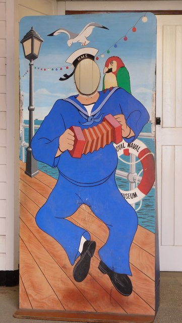 Sailor's Hornpipe The sailor dances what must be a hornpipe, whilst he accompanies himself on the Anglo concertina. I'd like to think that he is playing a nice old Jeffries, or perhaps a Wheatstone ..... but it looks like a cheaper model from overseas! My "find of the day", and I nearly missed it. It's already giving me ideas for a future visit.